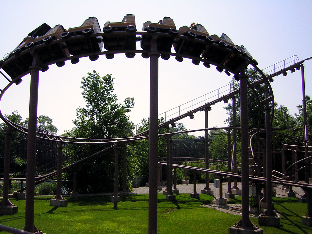 Woodstock Express roller coaster station at Cedar Point.